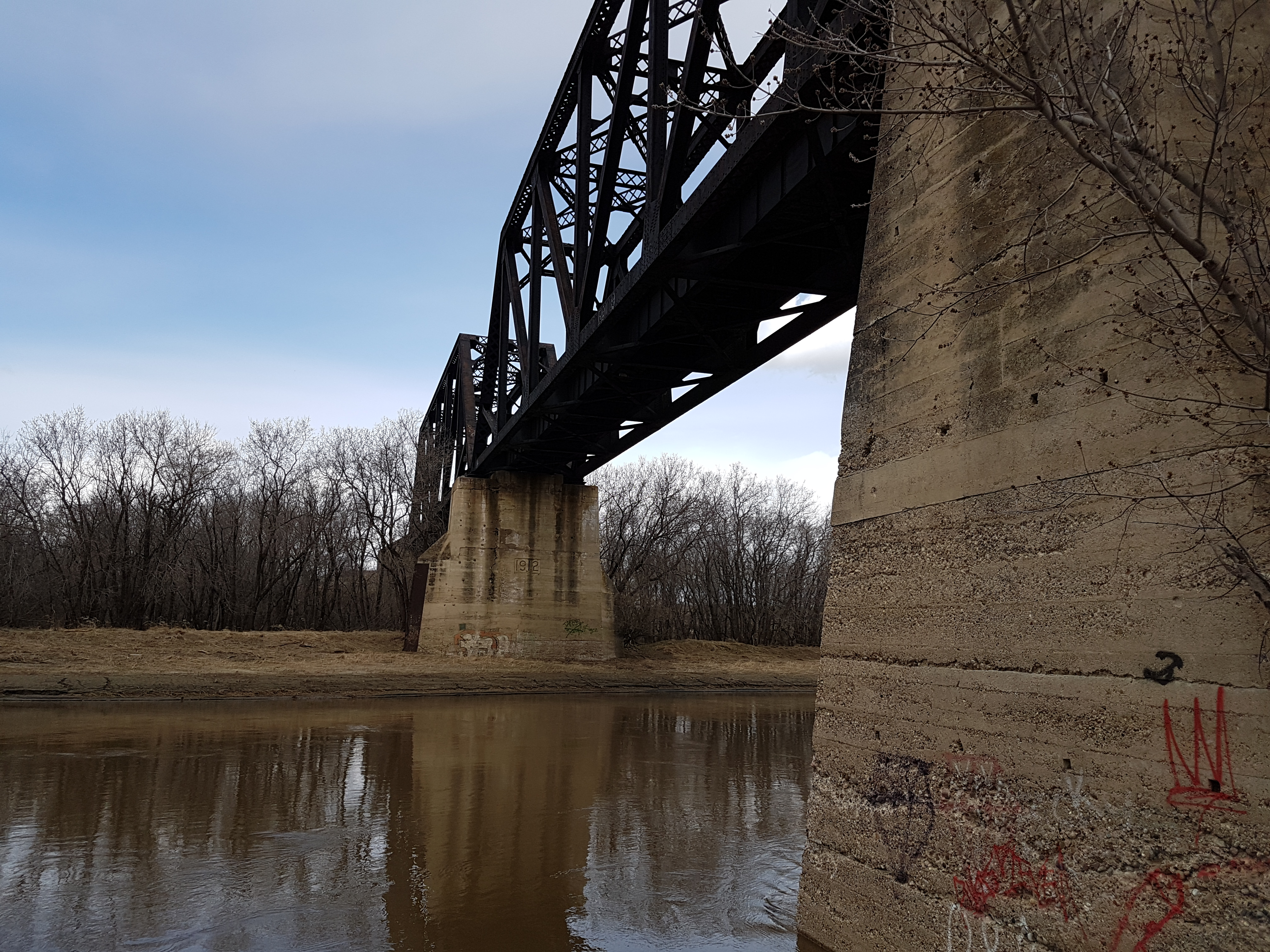 Bridge